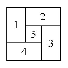 An example of non-slicing structure.